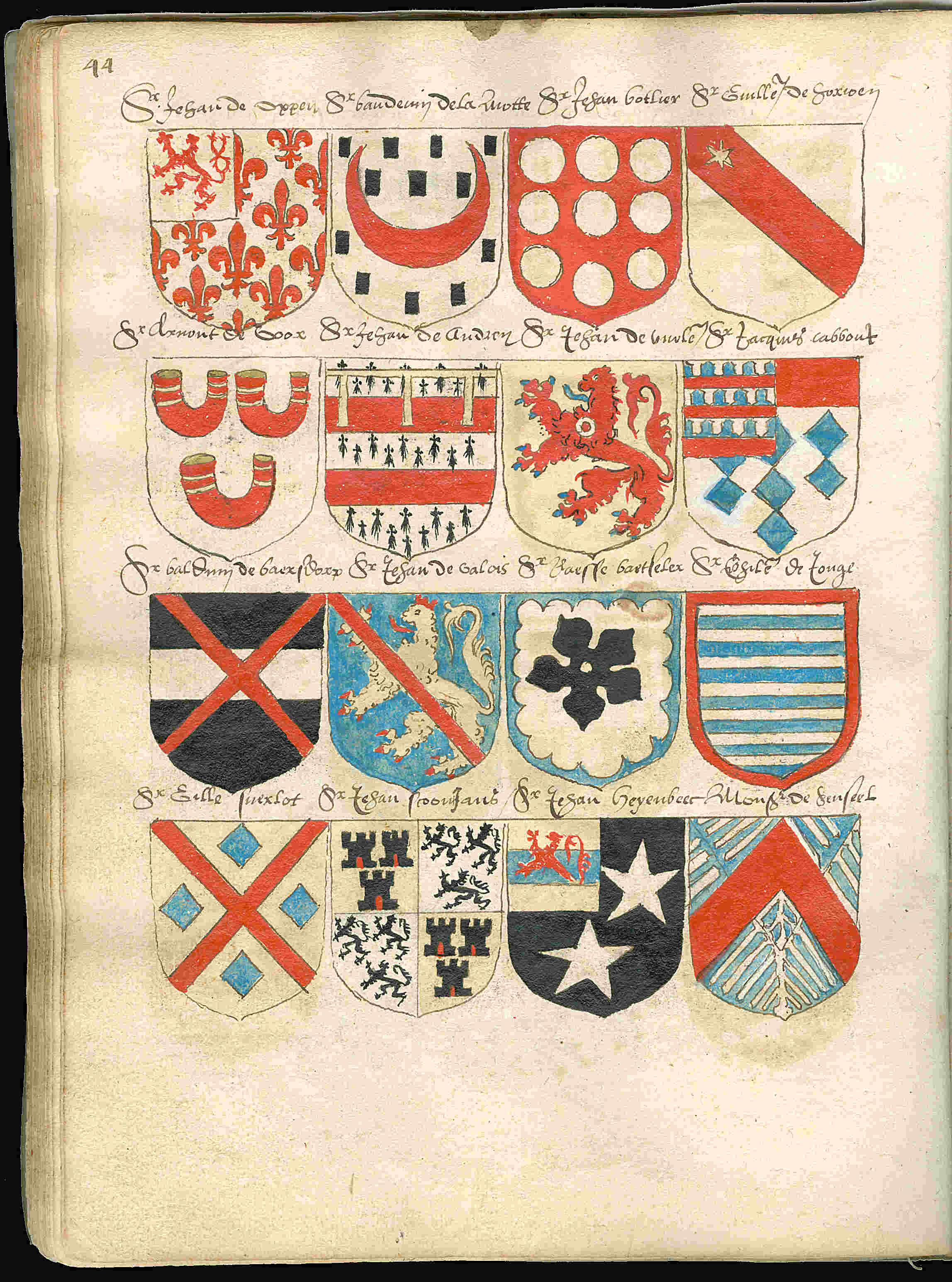 Page 44 from a copy of the Beyeren armorial / Wapenboek Beyeren from ca. 1600. The original Beyeren armorial from 1405 can be viewed at the website of the KB